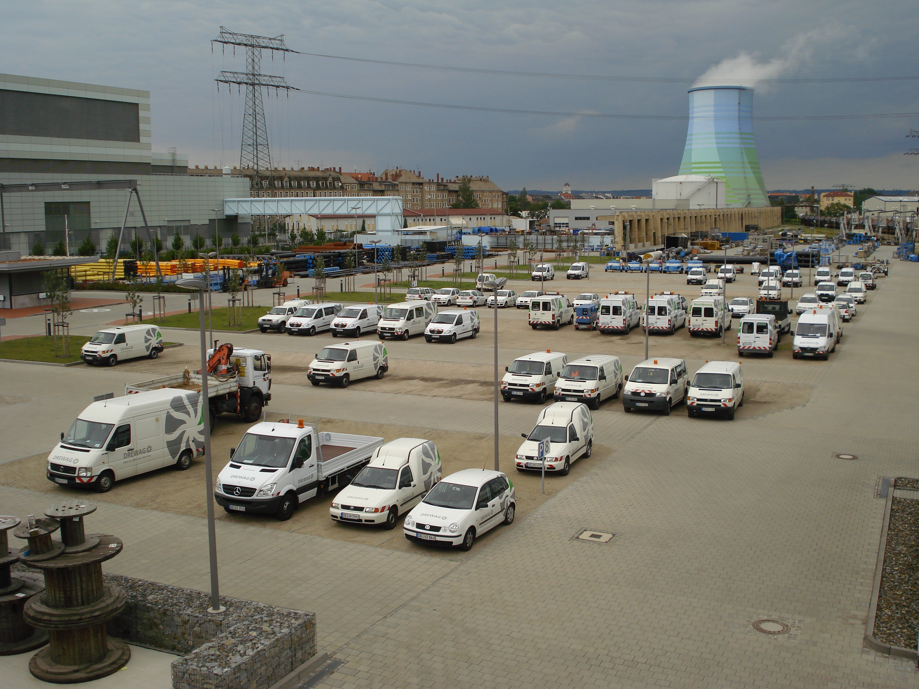 The powerstation of the "DREWAG" in Dresden Friedrichstadt.